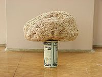 A thumbnail version of 'Pumice on 20 dollars.jpg' for the article on pumice. This thumbnail is necessary because the thumbnail of the main image created by the Wikimedia software is too blurry, as shown below.